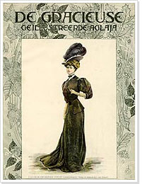 Dutch fashion and needlework periodical De Gracieuse Geïllustreerde Aglaja, first issue of 1907